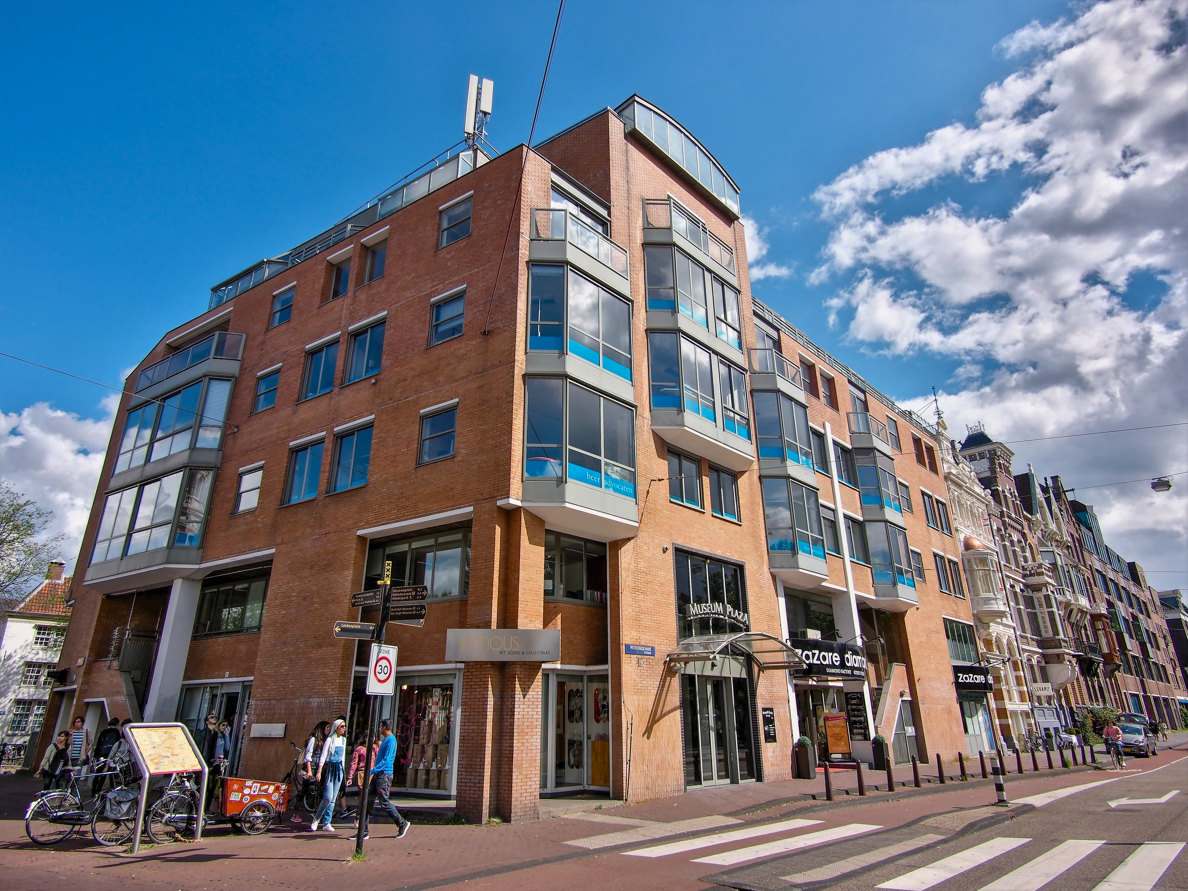 Photographed at Amsterdam, The Netherlands.